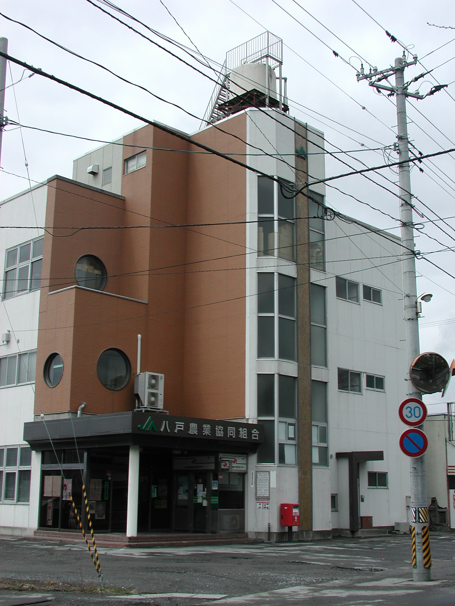 Hachinohe Agricultural Cooperatives Head Shop & Kaminaga Branch